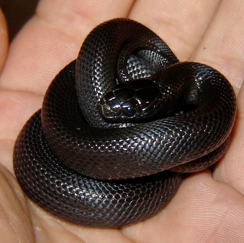 A very young (approximately 3 month-old) Mexican Black Kingsnake (Lampropeltis getula nigrita)